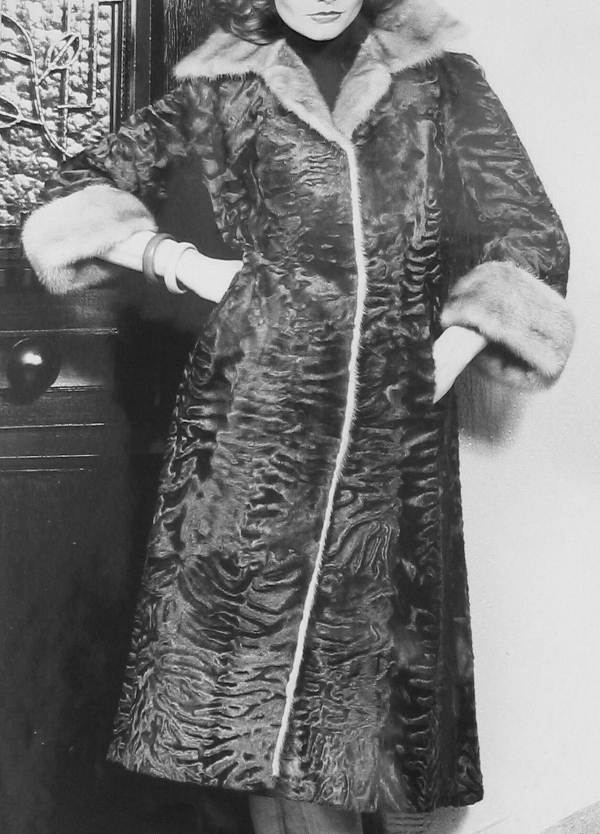 Bagdad broadtail fur coat